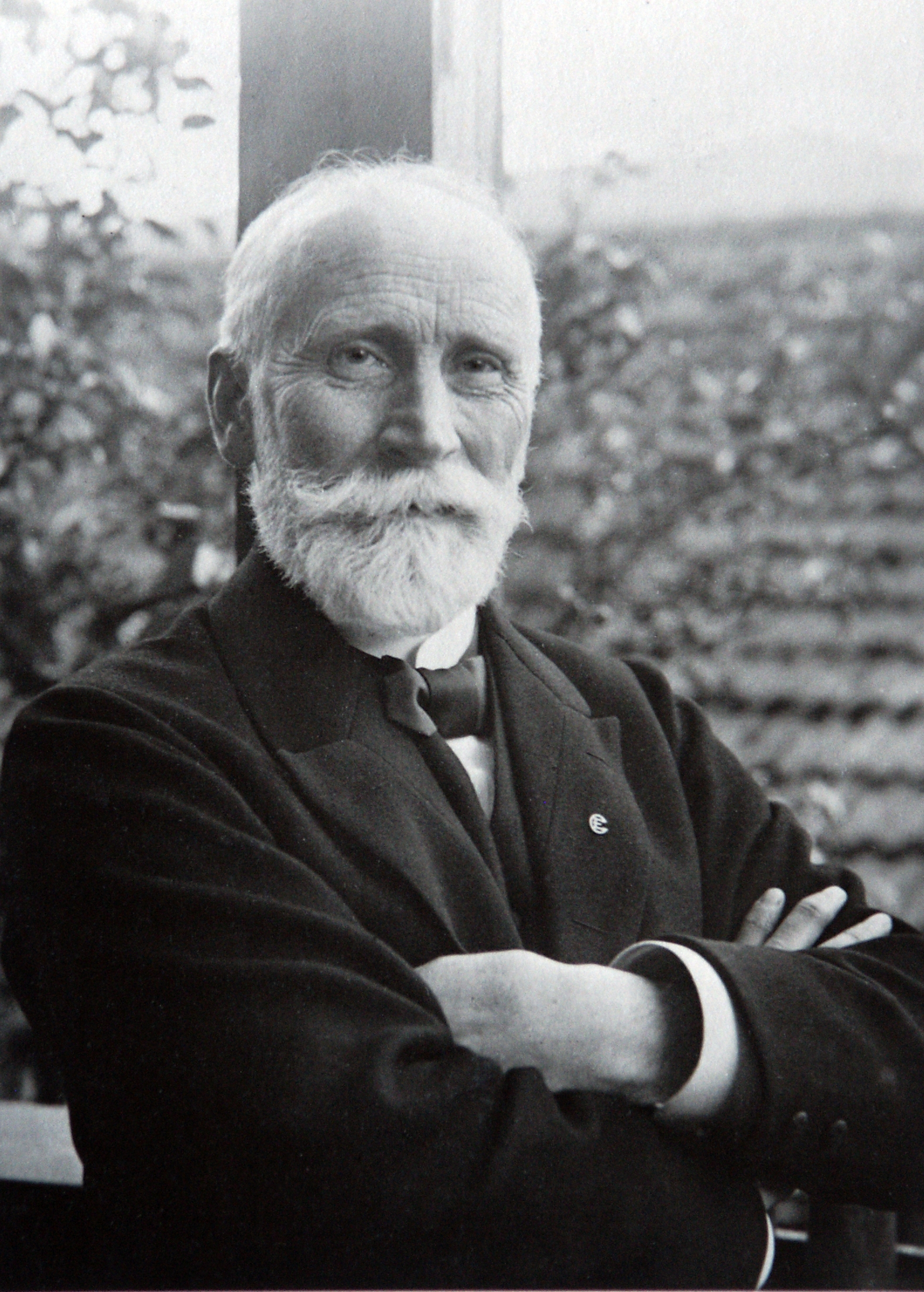 Heinrich Coerper (1863-1936)